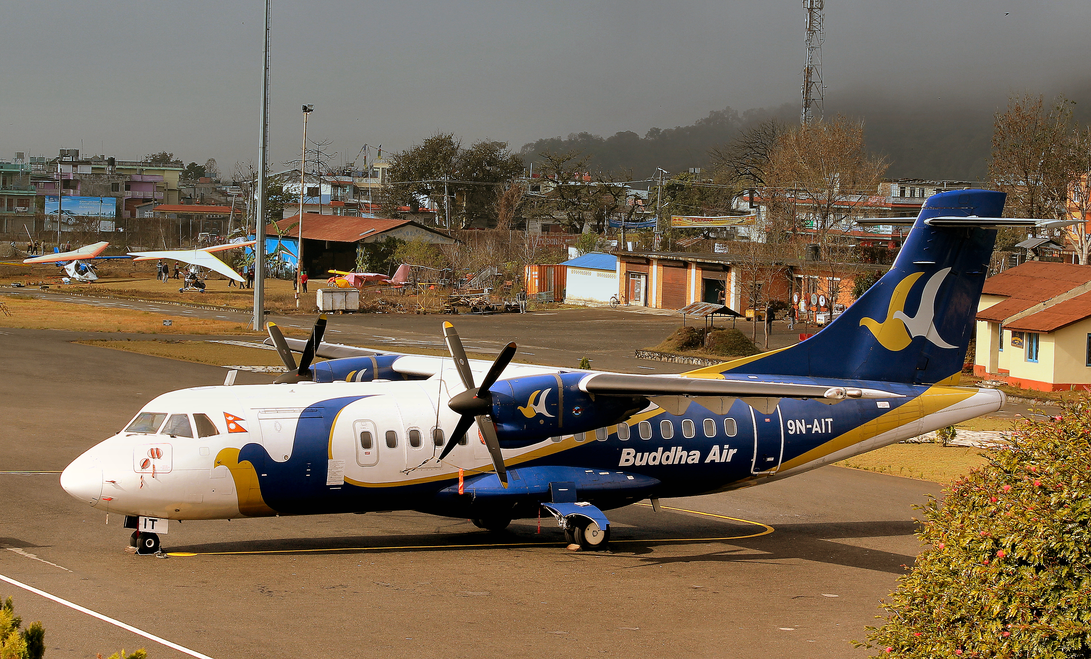 BUDDHA AIR ATR 42 9N-AIT AT POKHARA NEPAL FEB2013